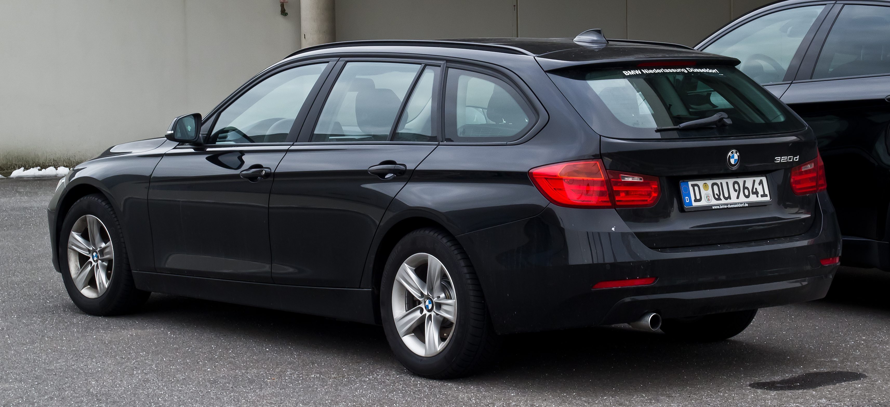 BMW 320d Touring (F31)